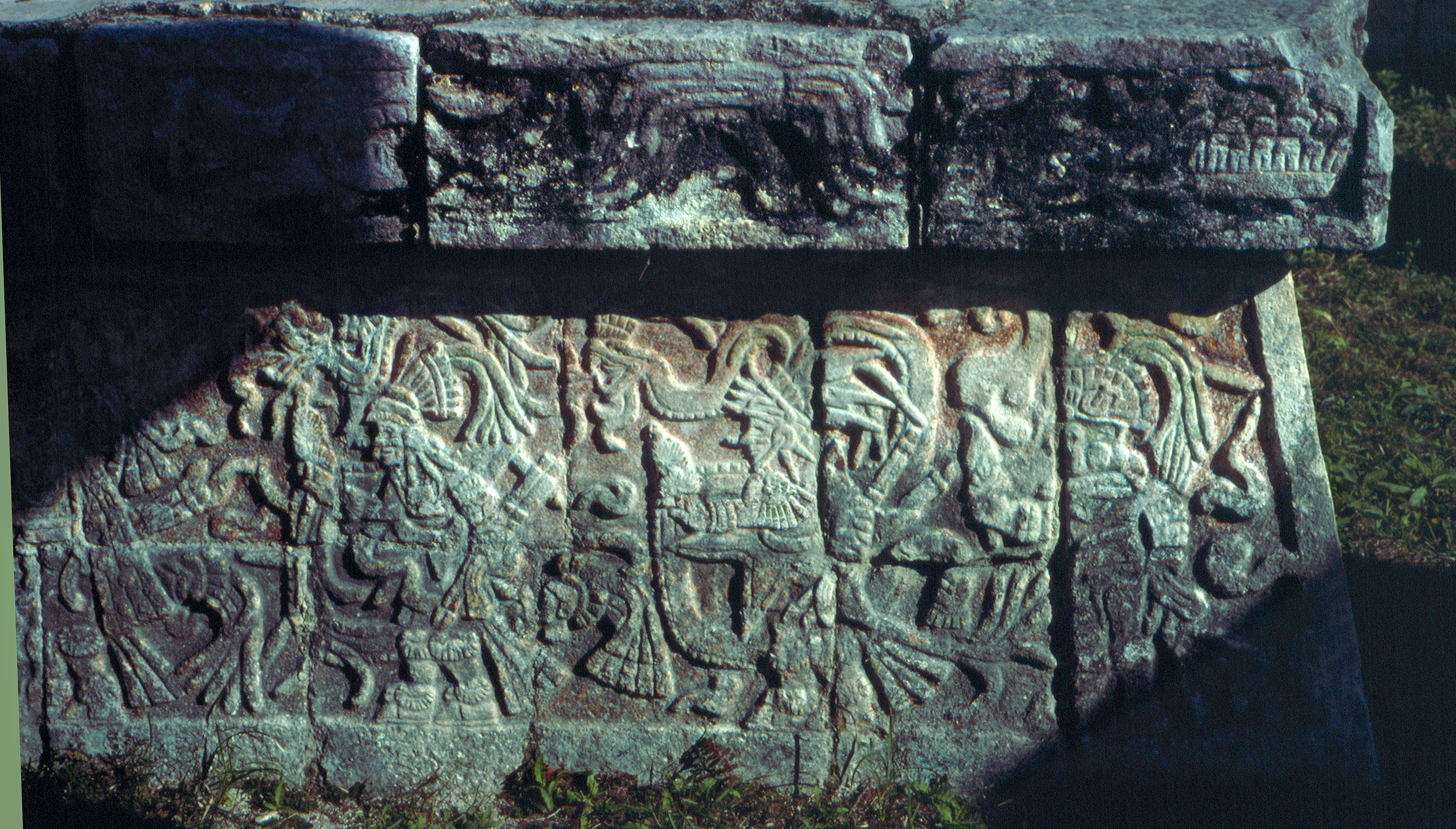 Chichén Itzá, Yucatan, Mexico: procession of warriors (bench at Thousand Colmns Complex)